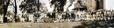 The last reunion in June 1931 of the descendants of Major John Redd (b. 1766) of Henry County, Virginia. Redd served as a major in the Continental Army, and built Belleview Plantation, on the National Register of Historic Places. The 1931 reunion was hosted by Pattie Redd Walker, great-granddaughter of Major Redd, and was held at Belleview Plantation, where this photo was taken. The house at Belleview stands in the background.